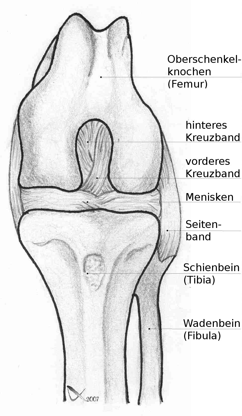 dog knee